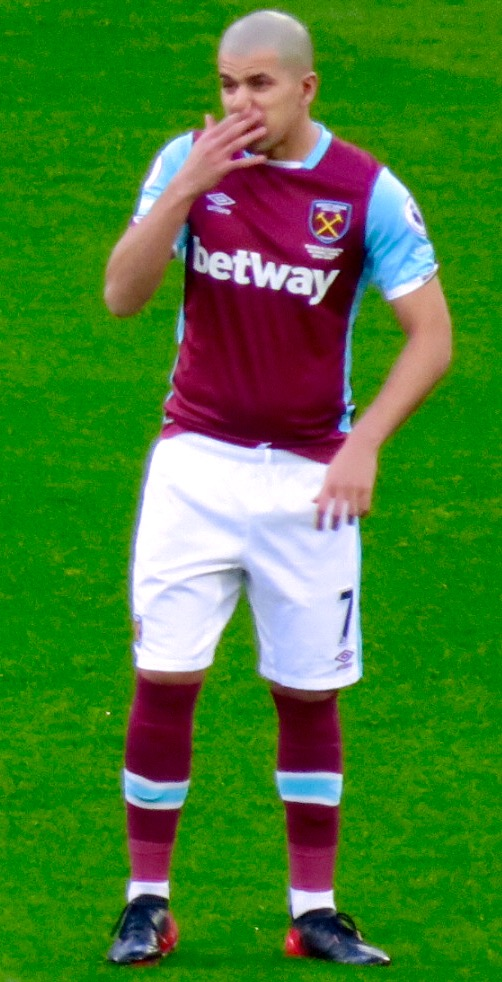 West Ham United player, Sofiane Feghouli, during their Premier League game against Crystal Palace at the London Stadium.